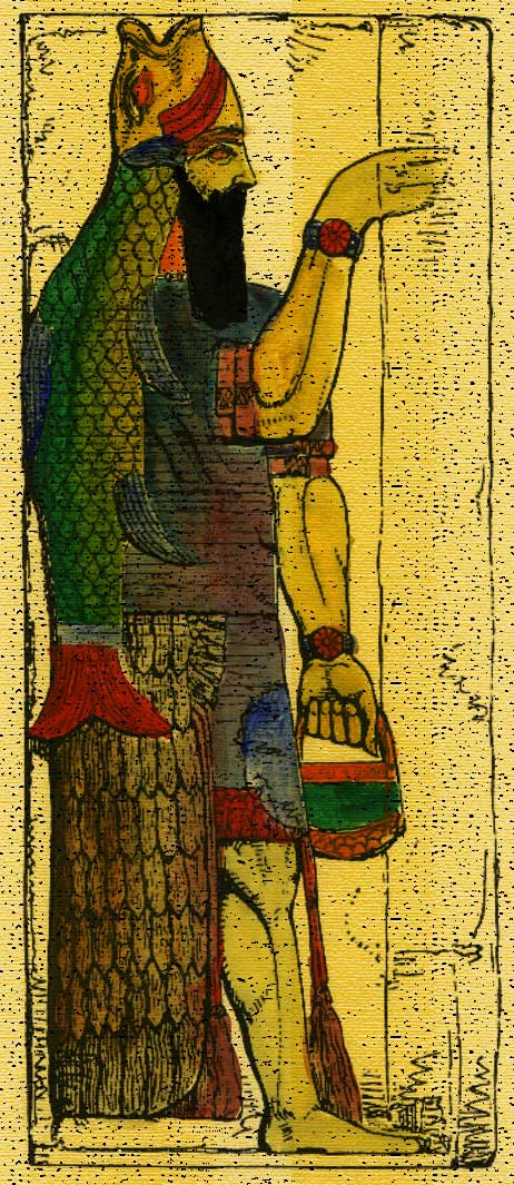 The Semitic fish-god Dagon. Coloured line-drawing, apparently following the illustration in Ernst Wallis "Illustrerad verldshistoria utgifven av E. Wallis." volume I, 1875